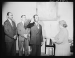 Martin A. Martin being taking oath of office as first African American criminal trial attorney at U.S. Department of Justice, as Oliver W. Hill and Frank Coleman look on Other information cropped part already used in Oliver Hill article